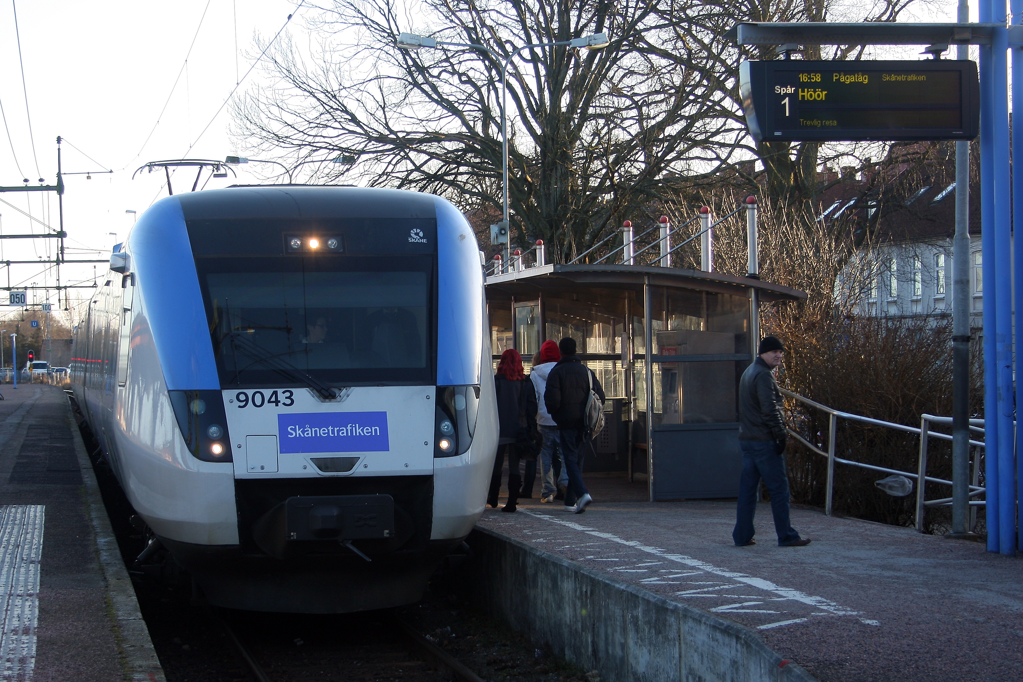 "Pågatåg" commuting train, model X52, at Eslöv station.